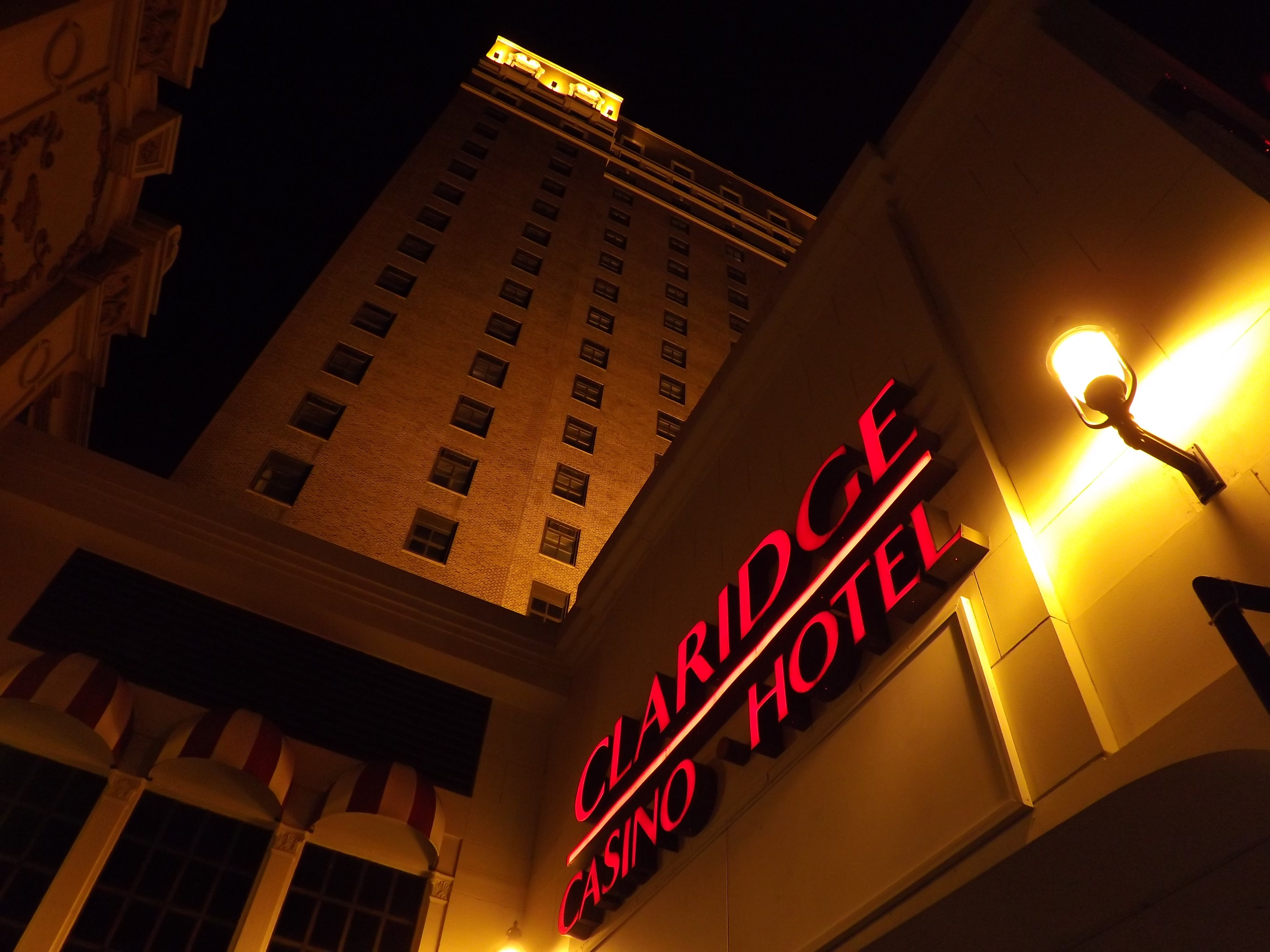 A Photograph at night of Claridge Atlantic City Hotel, close up of the signage and building.